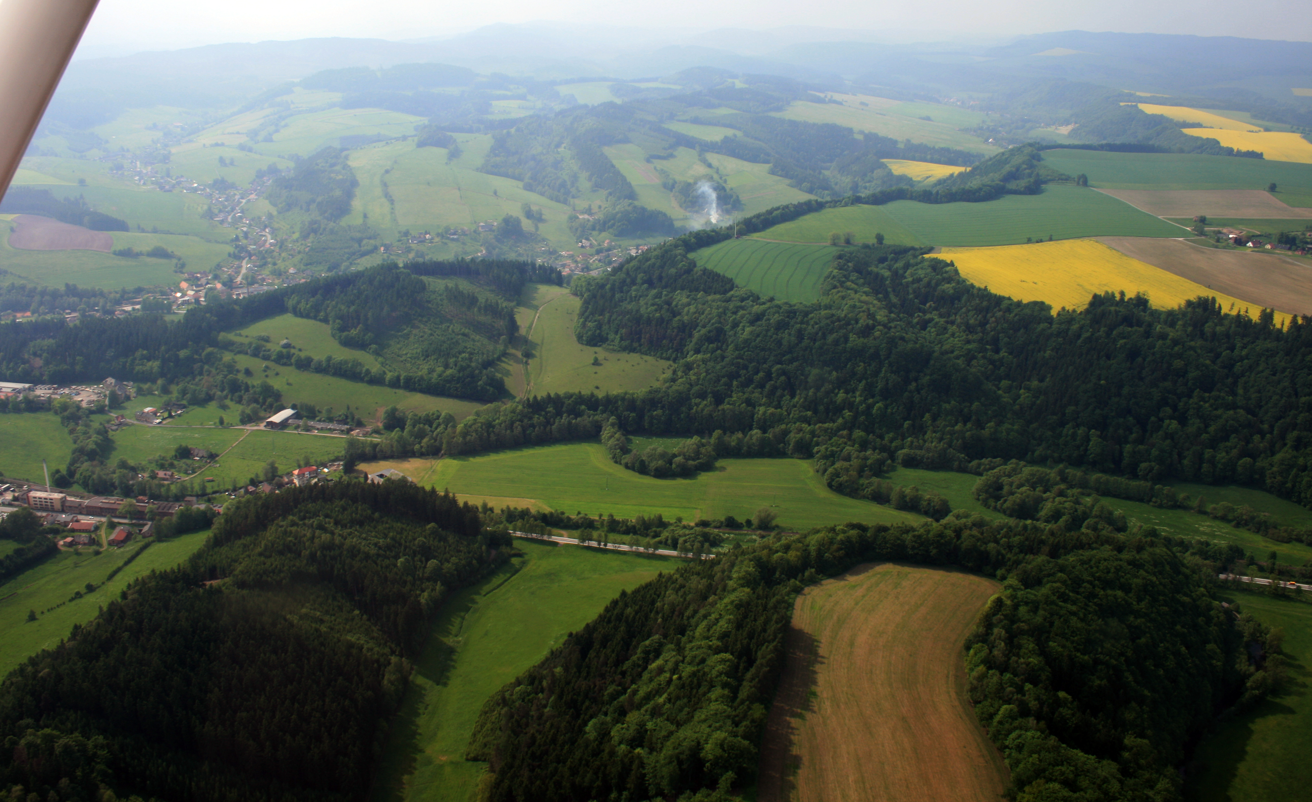 Small villages Žabokrky and Velký Dřevíč, parts od town Hronov from air, eastern Bohemia, Czech Republic